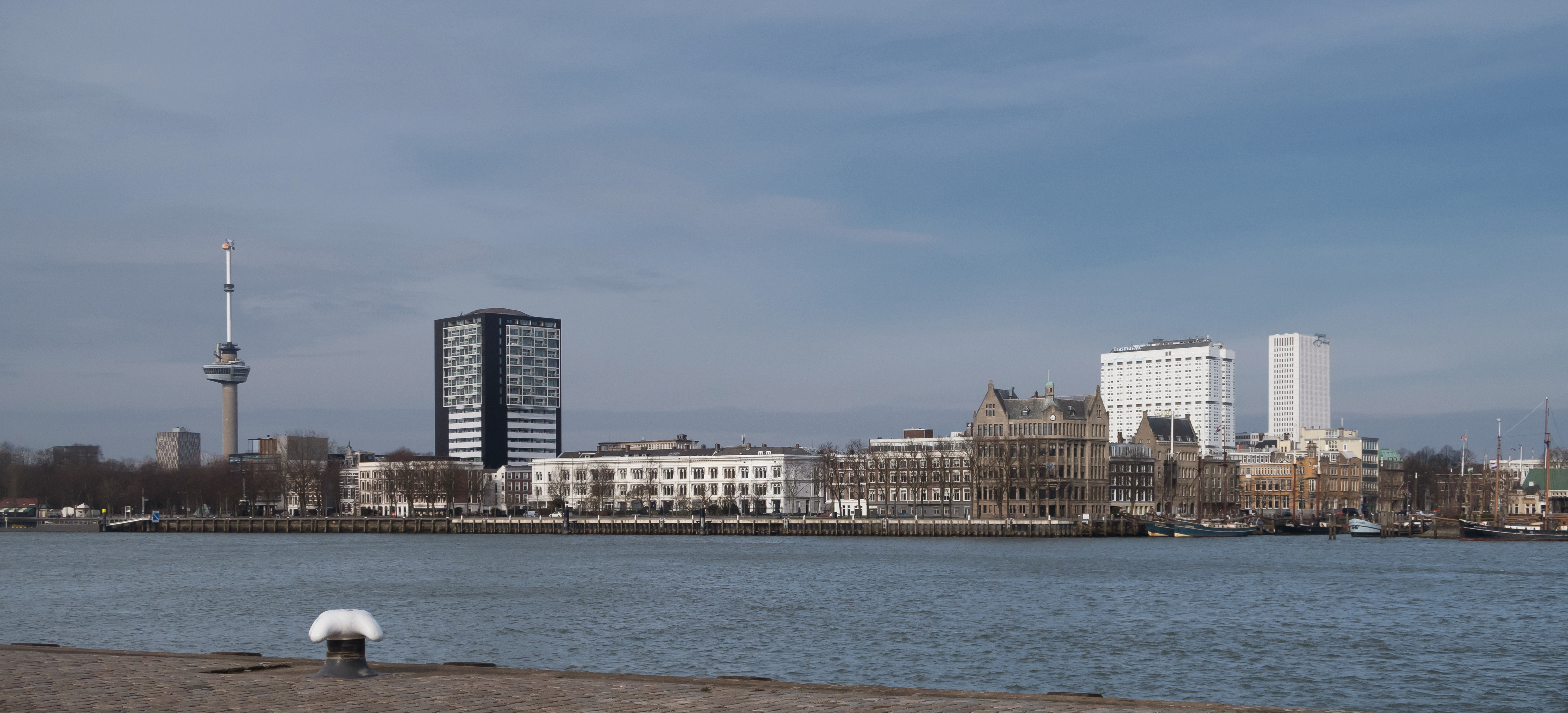 Rotterdam, view to Neighbourhood Scheepvaartkwartier (with the observation tower de Euromast) from Hotel New York